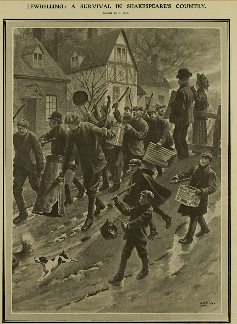 A depiction of an incident in a Warwickshire community in the twentieth century (Illustrated London News, 14 August 1909). The caption stated that the custom, although dying out, was still occasionally observed.